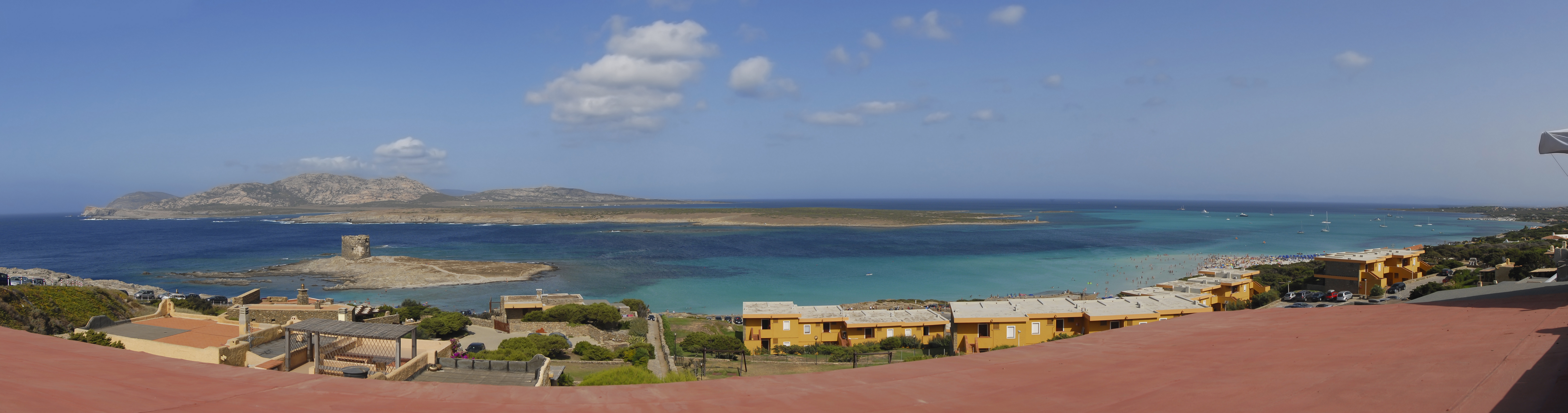 Panorama of Capo del Falcone